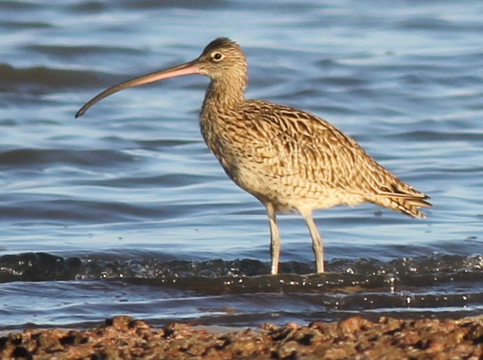 Eastern curlew (Numenius madagascariensis) at Cleveland, Queensland